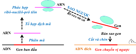 Simplified representation of the life cycle of a retrotransposon.